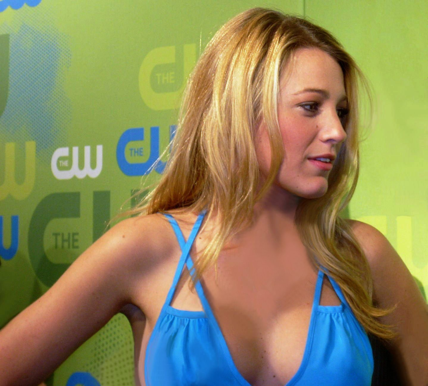 Blake Lively. - CW Upfront Presentation: Green Carpet Arrivals, Madison Square Garden, New York City - May 21, 2009